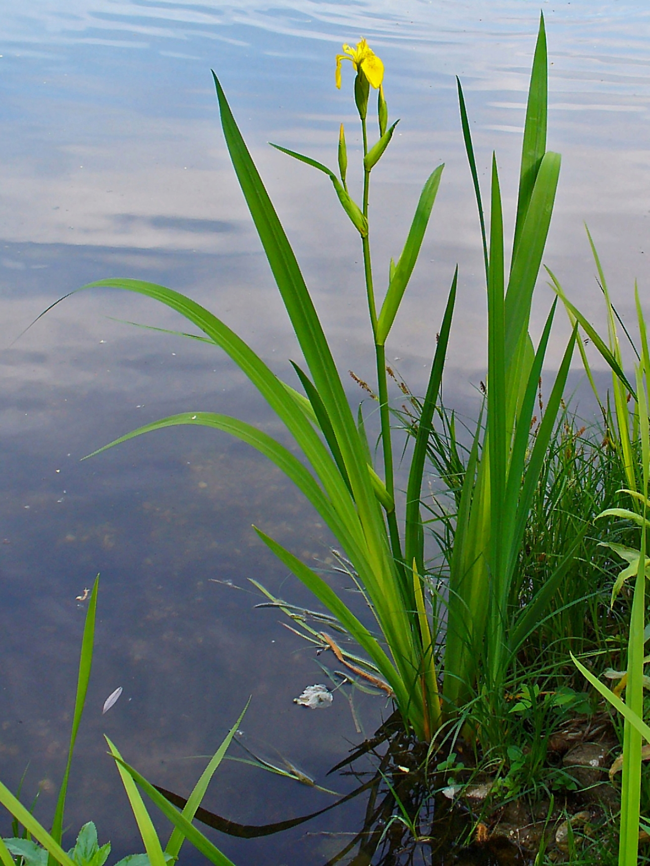 Iris pseudacorus, Iridaceae, Yellow Iris, Yellow Flag, habitus; Karlsruhe, Germany. The plant is used in homeopathy as remedy: Iris pseudacorus (Iris-ps.)